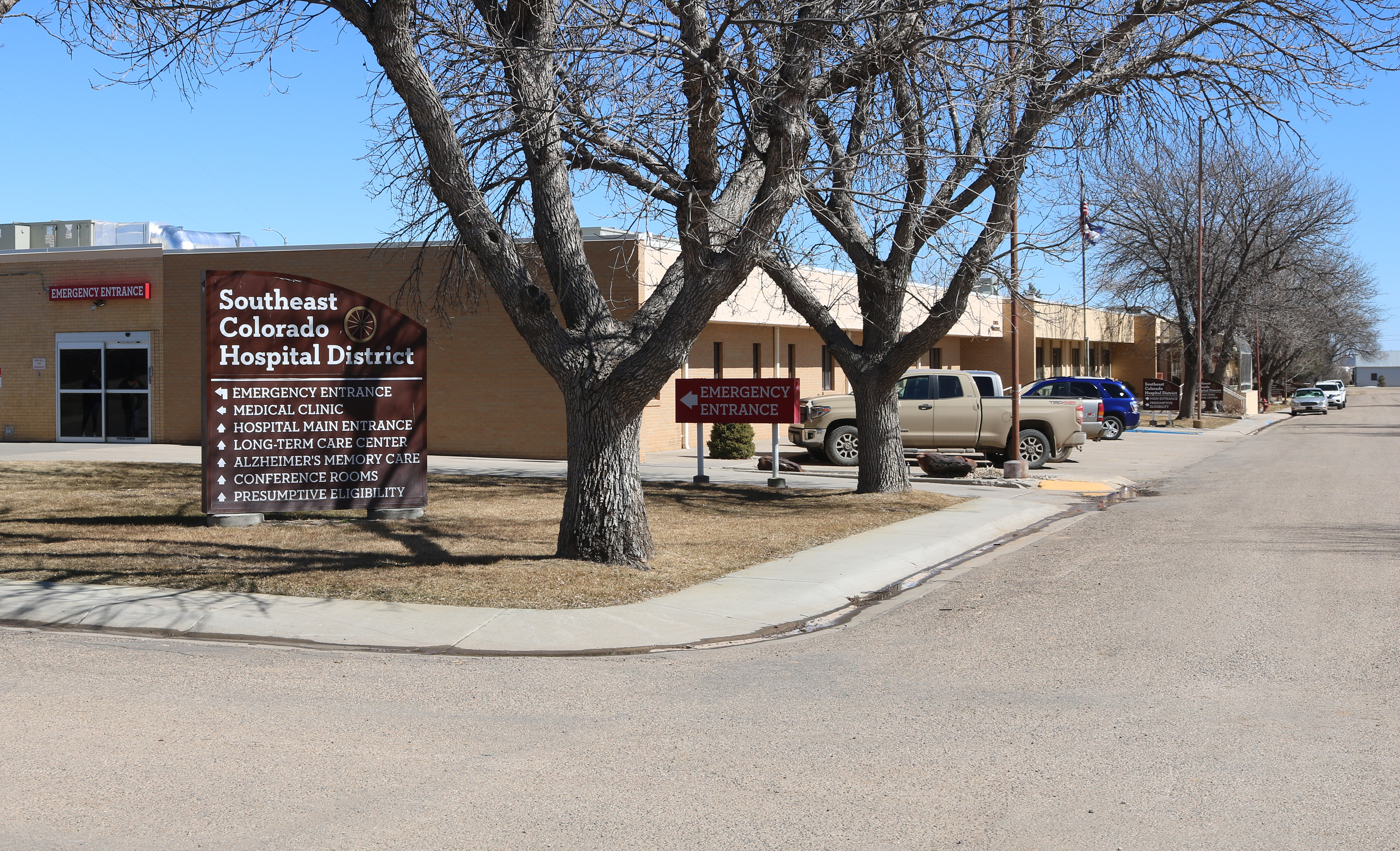 The Southeast Colorado Hospital, located at 373 East 10th Avenue in Springfield, Colorado.